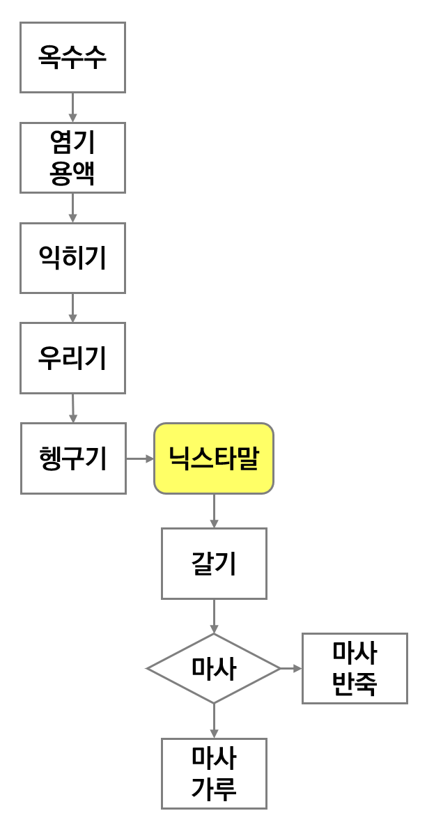 Flowchart of nixtamalization process (in Korean)